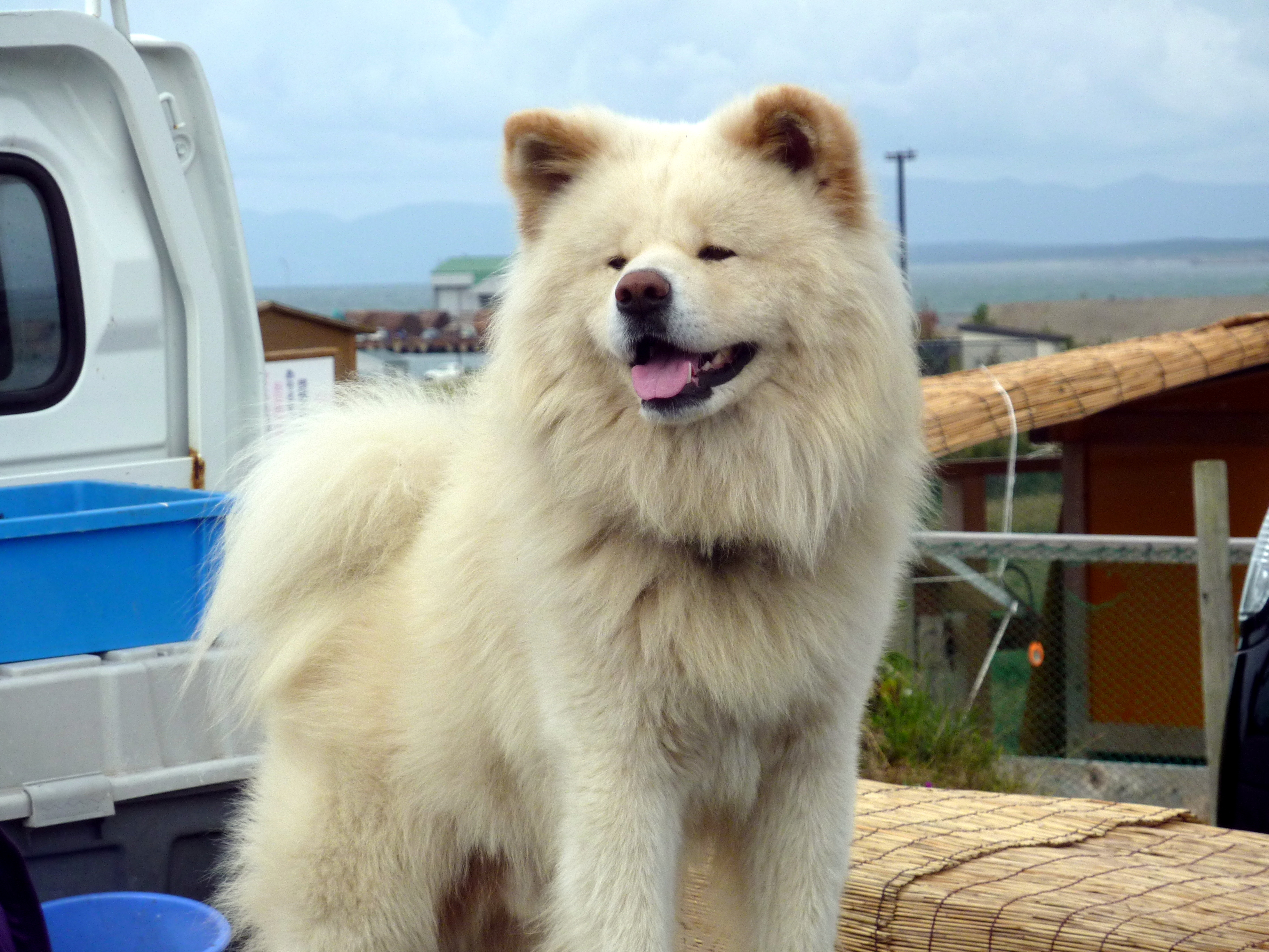 Famous resident of Ajigasawa, Wasao the movie dog. He is an example of the long-haired variety of the Akita Inu, which is not accepted in the official breed standard.